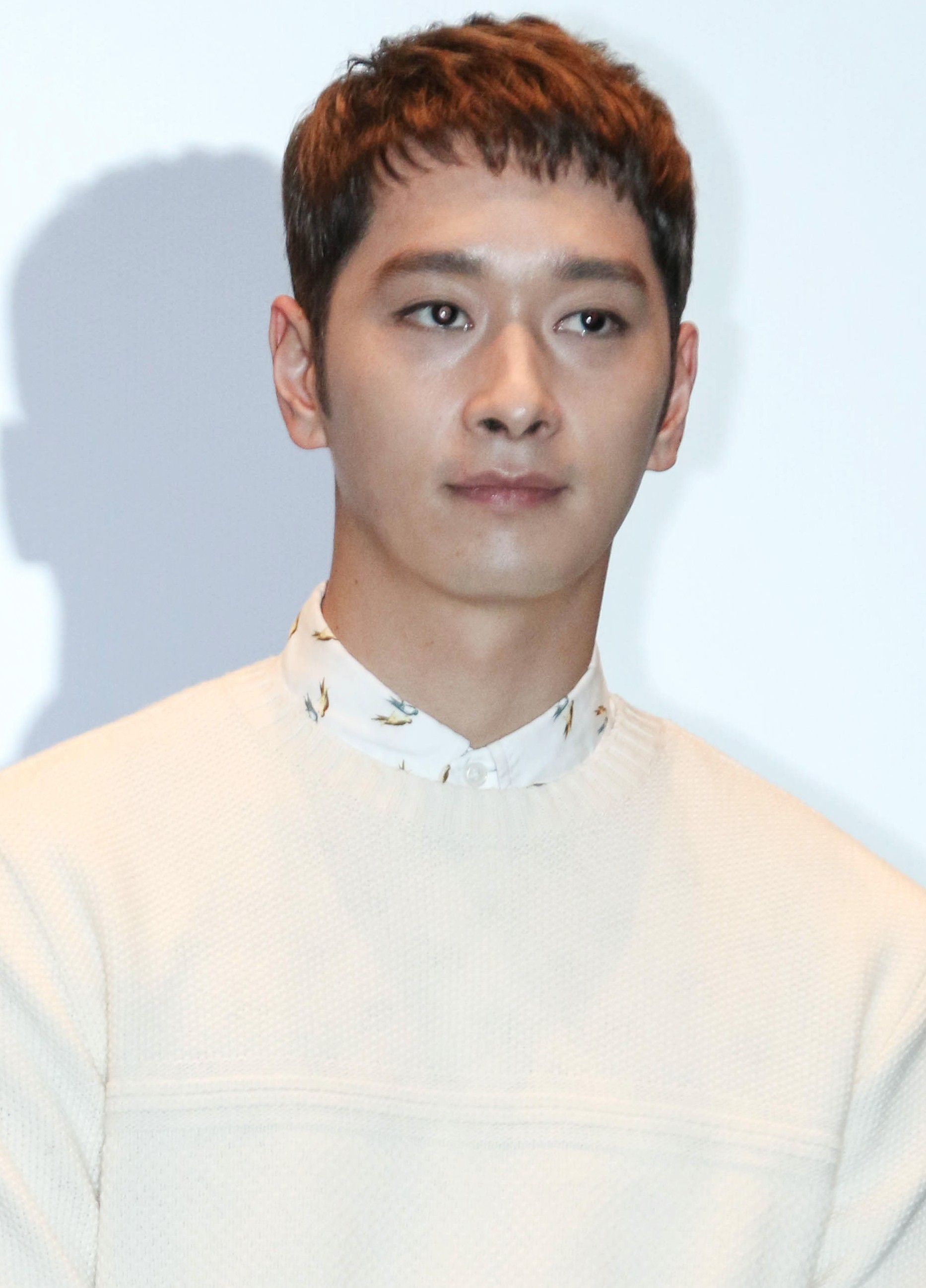 Hwang Chansung at the press conference for "Red Carpet", 24 October 2014